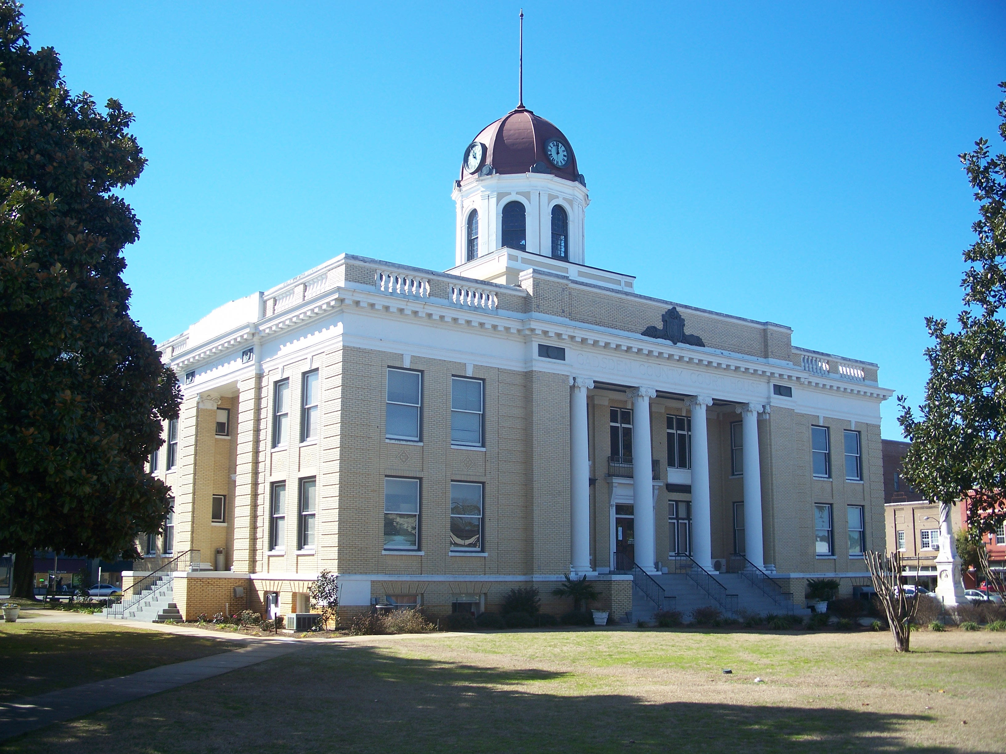 Quincy, Florida: Gadsden County Courthouse